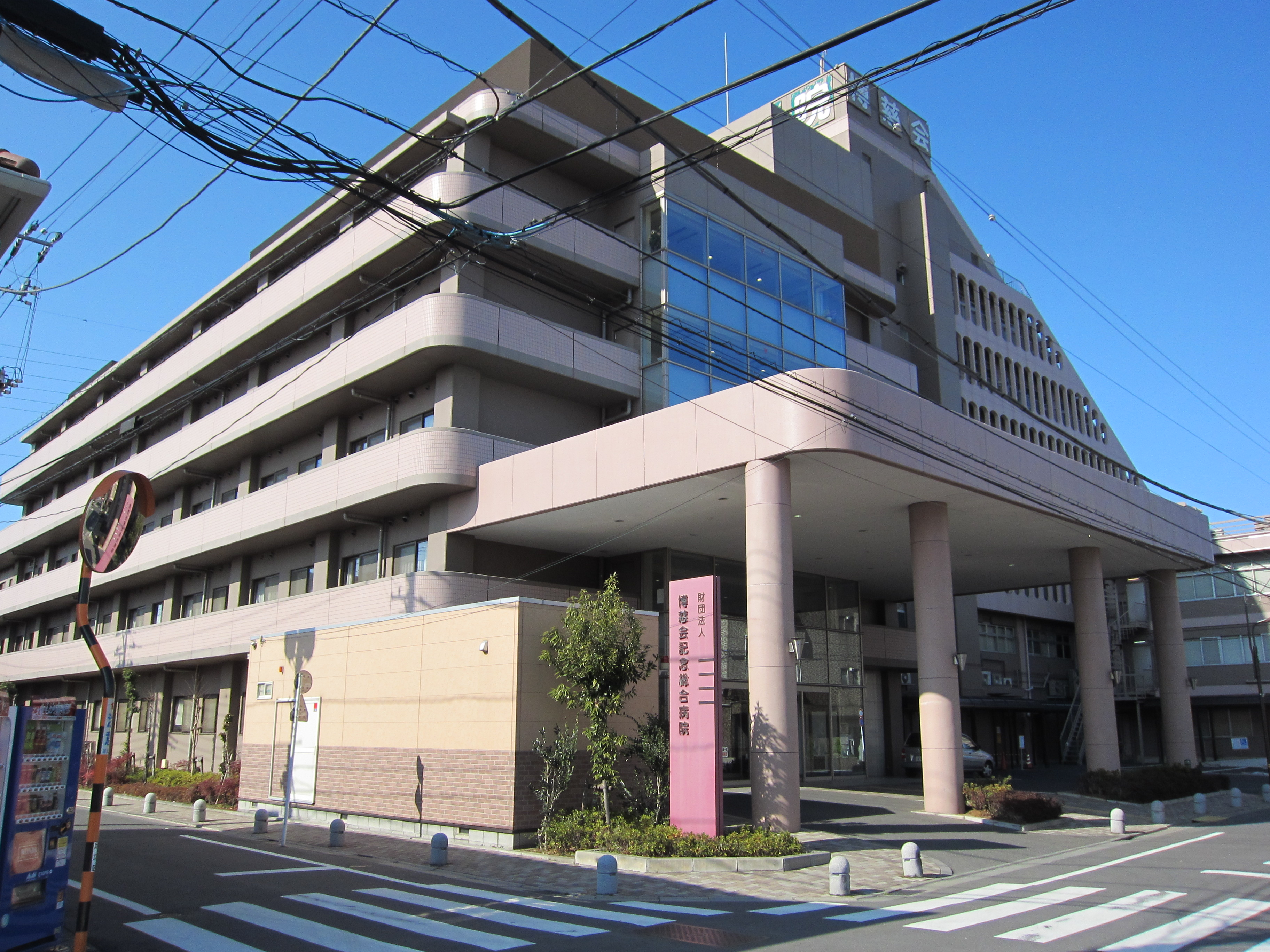 Hakujikai Memorial Hospital